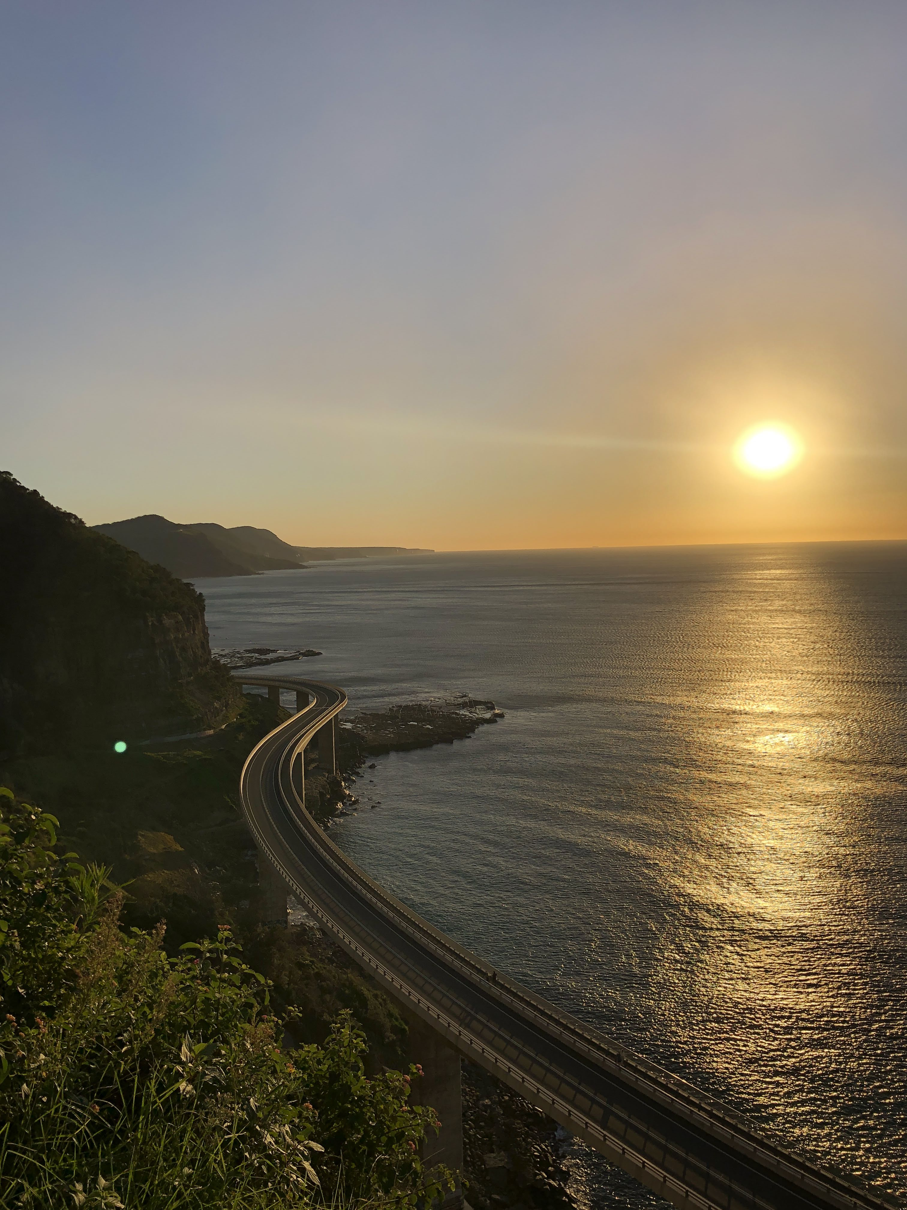 The Seacliff Bridge Grand Pacific Drive, New South Wales, Australia at Sunrise. May 2020